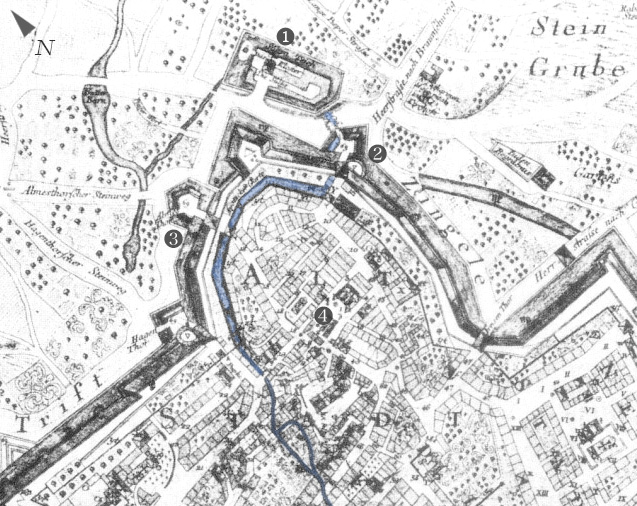 Map of Hildesheim around 1760, detail: the old town (Altstadt) and the Sülte monastery in front of the Ostertor gate: 1 Sülte monastery, 2 Ostertor, 3 Almstor, 4 Town hall market.